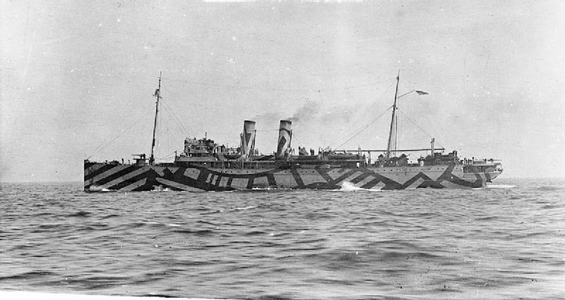 IWM caption : HMS WAHINE dazzle-painted, and operating as a minelayer.